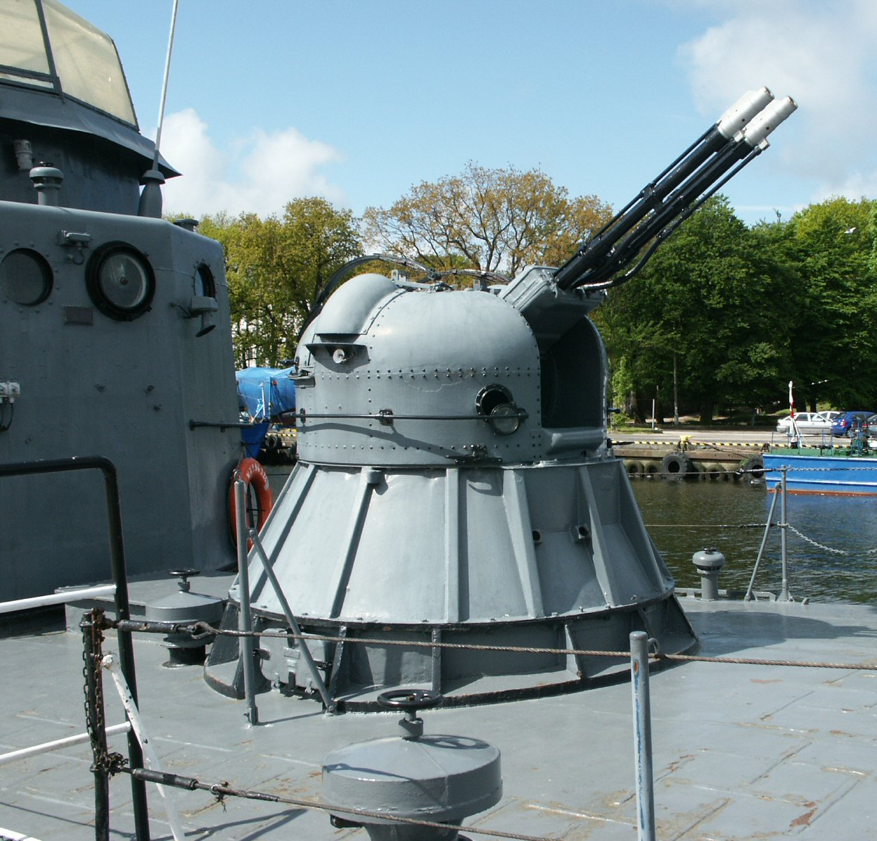 AK-230 automatic 30mm naval gun on the Polish patrol craft ORP Fala (museum ship in Kołobrzeg).